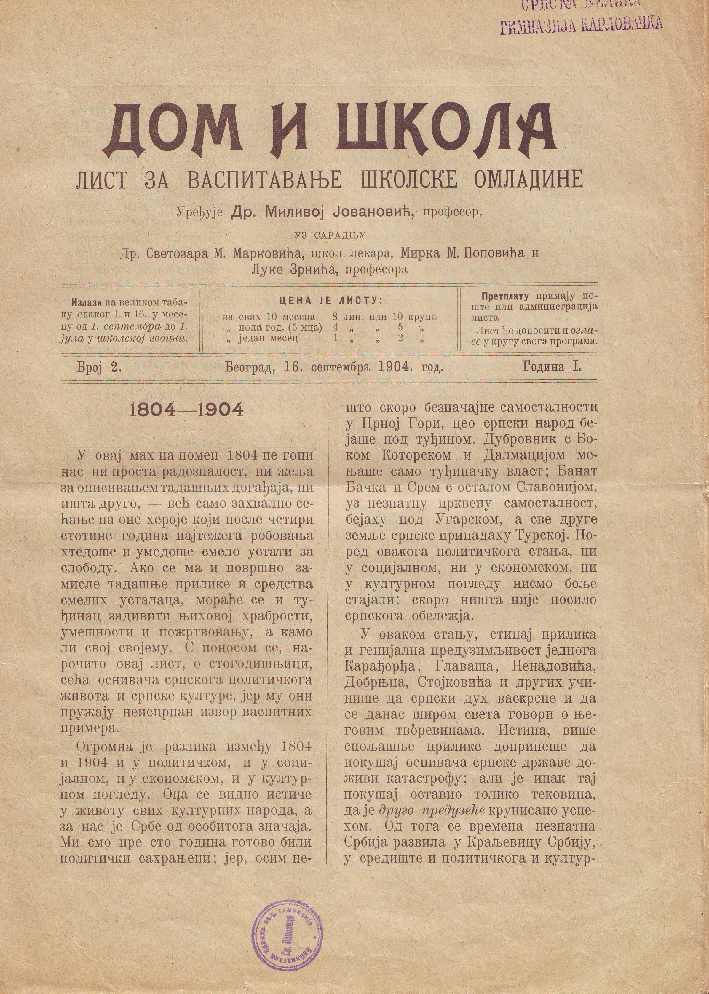 The front page of the newspaper Dom i škola for upbringing of the school youth from 16 September 1904. Srpski (latinica): Naslovna strana lista Dom i škola za vaspitavanje školske omladine od 16. septembra 1904. godine.